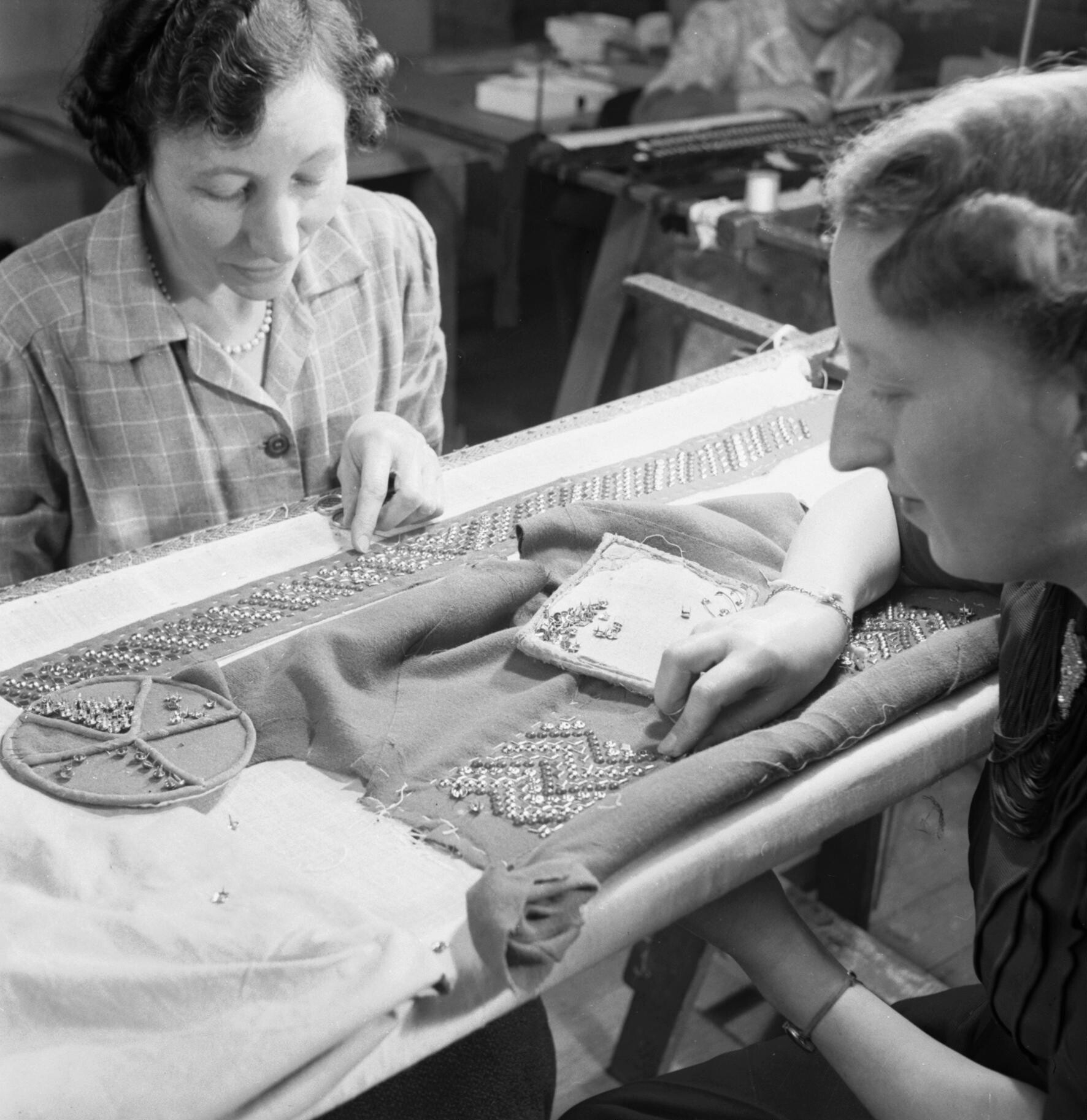 In the workrooms of the fashion designer Norman Hartnell in London, two women apply studs by hand to the belt and shoulder pieces of an afternoon frock, 1944. In the workrooms of the fashion designer Norman Hartnell in London, two women apply studs by hand to the belt and shoulder pieces of an afternoon frock. They are working the embroidery room (although embroidery is not allowed in wartime), and it is in this room that all the ceremonial and evening gowns for the pre-war Royal Visit to France and Canada were embroidered.